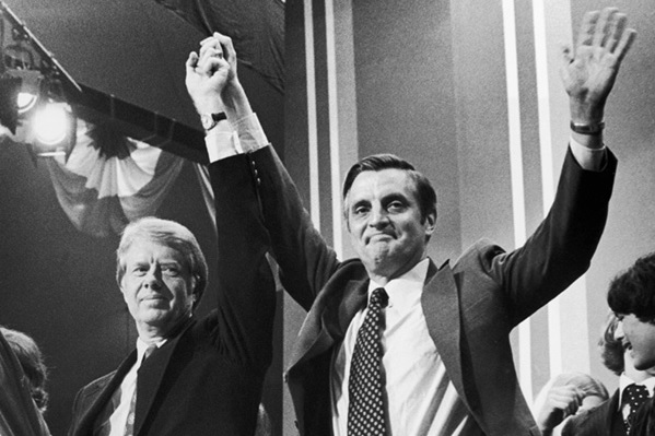 Jimmy Carter and Walter Mondale celebrating March 13th Democratic primary victories at Mondale campaign headquarters, Minneapolis, Minnesota. US LOC, March 13, 1984.